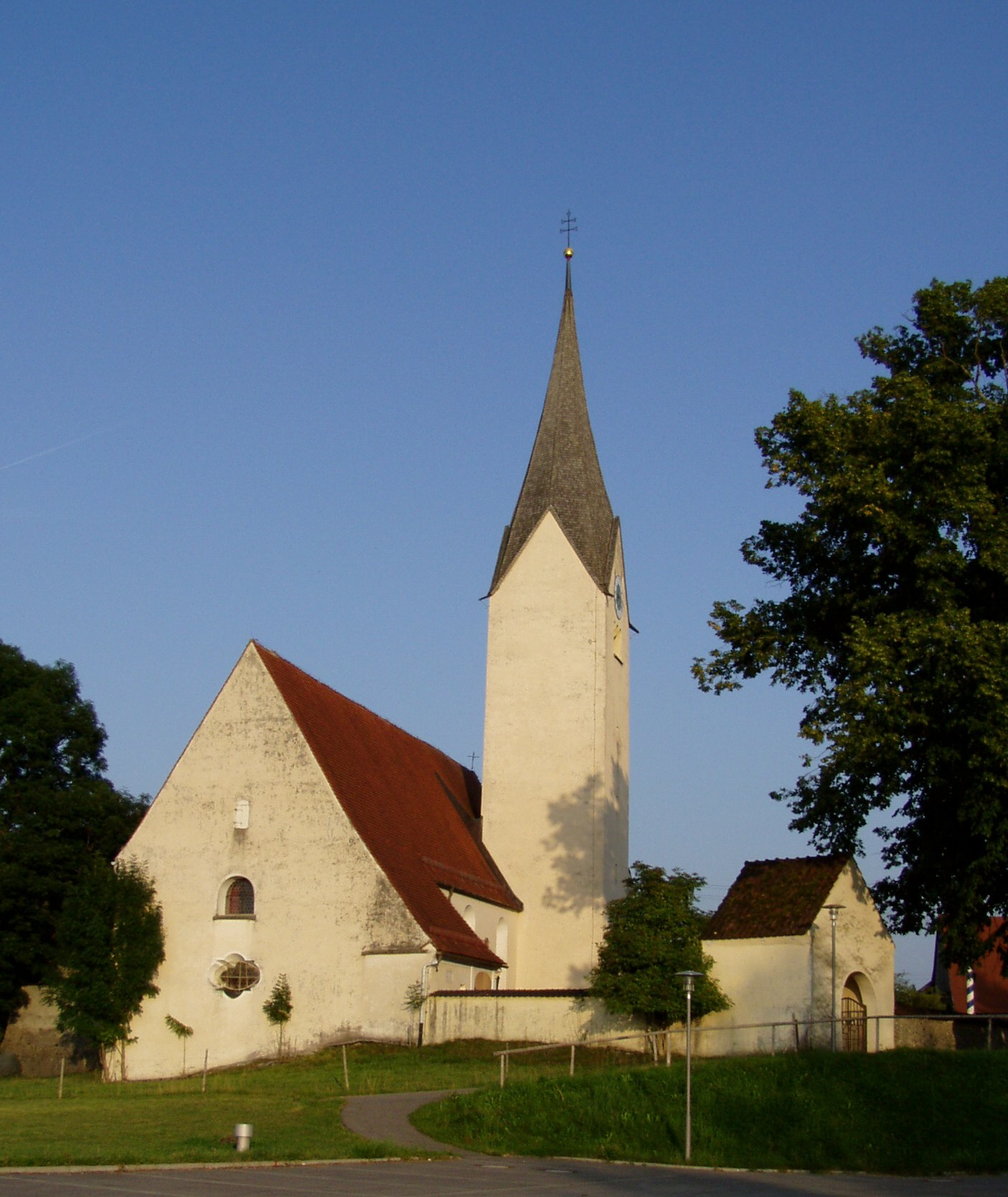 Kirche in Thalhofen a. d. Wertach, Stadt Marktoberdorf